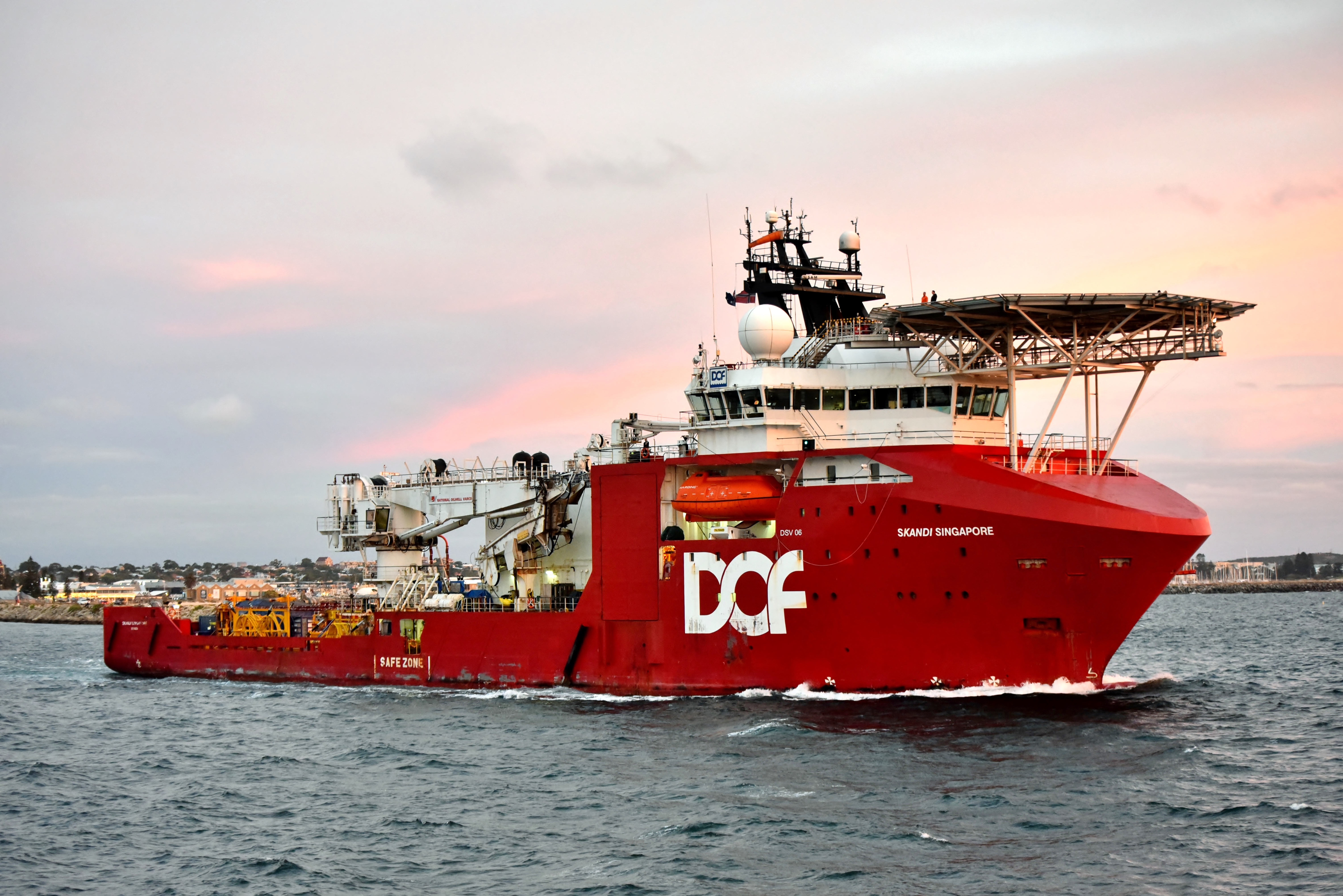 Diving support vessel Skandi Singapore departing from the inner harbour of the Port of Fremantle, Western Australia, on a voyage to Dampier, Western Australia